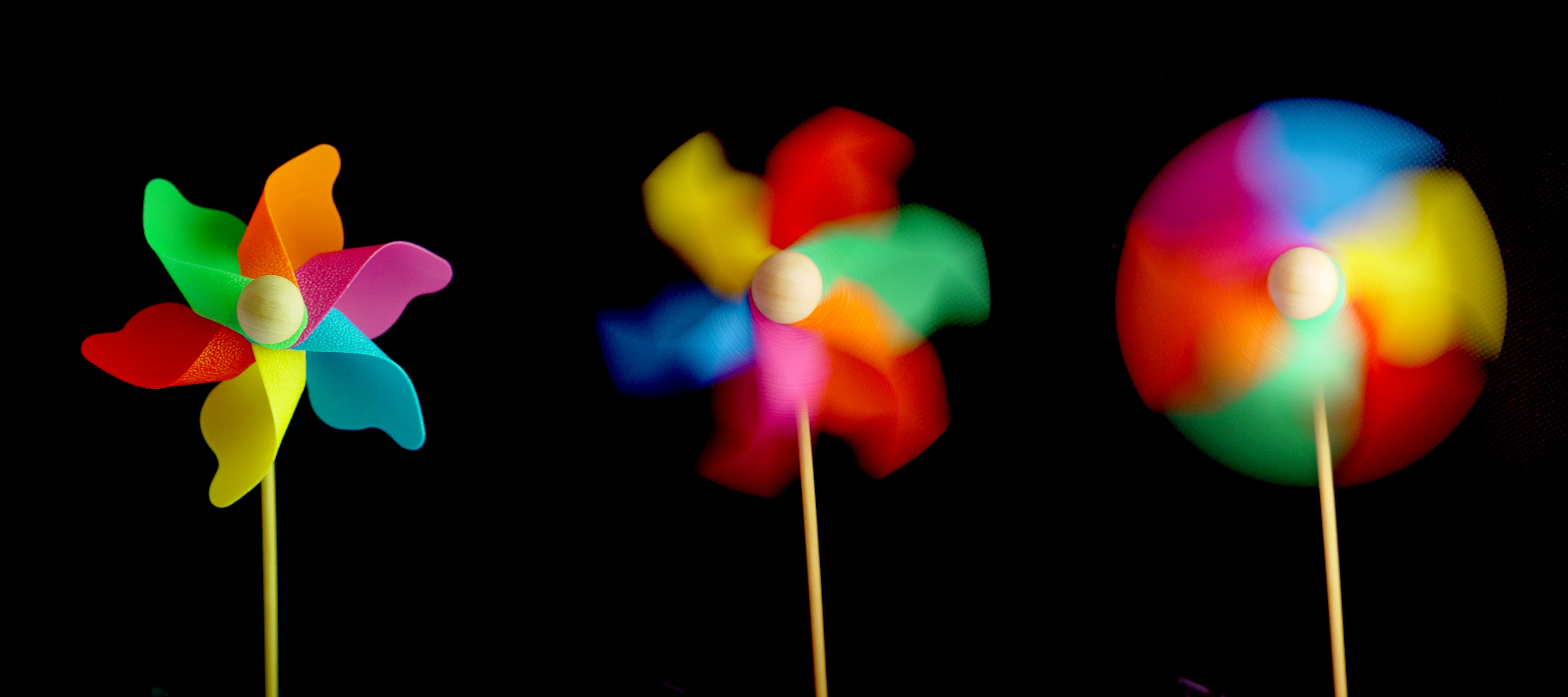 Effect of different shutter speeds on photograph. In photography, shutter speed is a common term used to discuss exposure time, the effective length of time a camera's shutter is open. Slower shutter speeds are often selected to suggest movement in a still photograph of a moving subject. Fast shutter speeds freeze a moving subject on photograph.